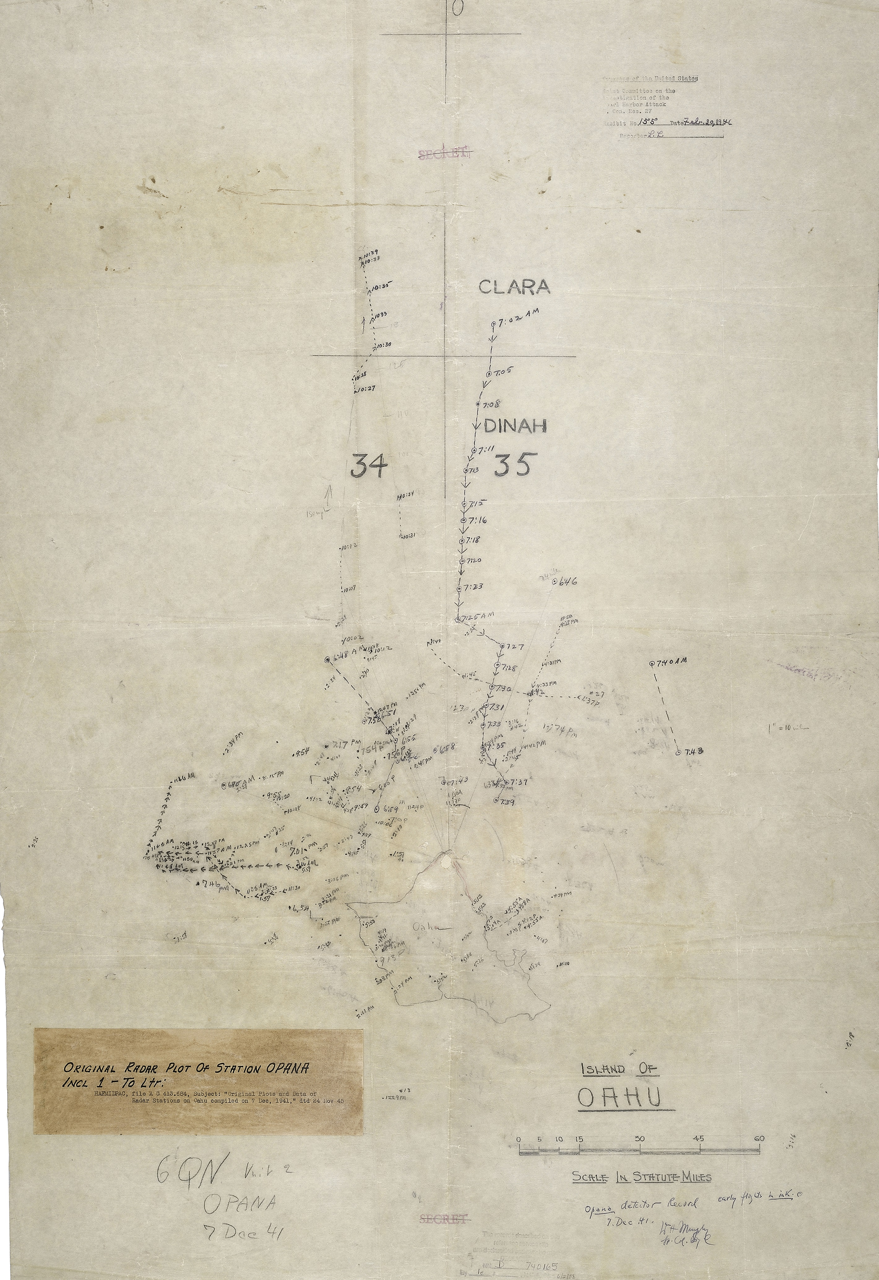 Original radar plot from the morning of December 7, 1941, showing track of Japanese planes en route to attack Pearl Harbor. Created at the SCR-270 radar site at Opana, on the northern tip of Oahu, Hawaii.